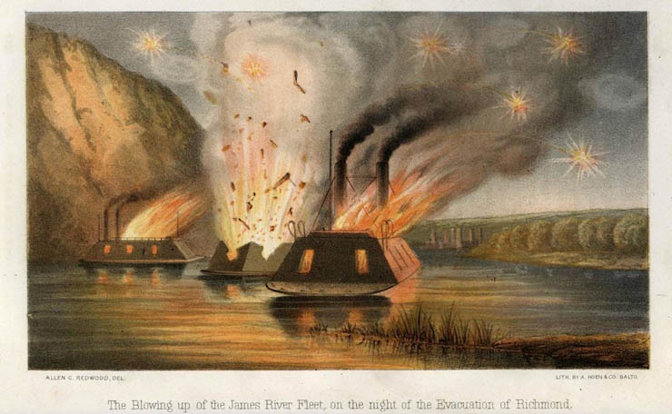 "The Blowing up of the James River Fleet, on the night of the Evacuation of Richmond." Painting by Allen Christian Redwood showing the sinking of CSS Virginia II, CSS Fredericksburg and CSS Richmond on April 3, 1865 during the American Civil War. Hampton Roads Naval Museum collection, Hoen and Co. Note: Allen C. Redwood was influenced by existing illustrations of City-class Union ironclads of the Mississippi River Squadron. In fact, the depicted ironclads bore little resemblance to the ironclads Virginia II, Fredericksburg, and Richmond, as even today some details of their design and construction remain wrapped in conjecture.